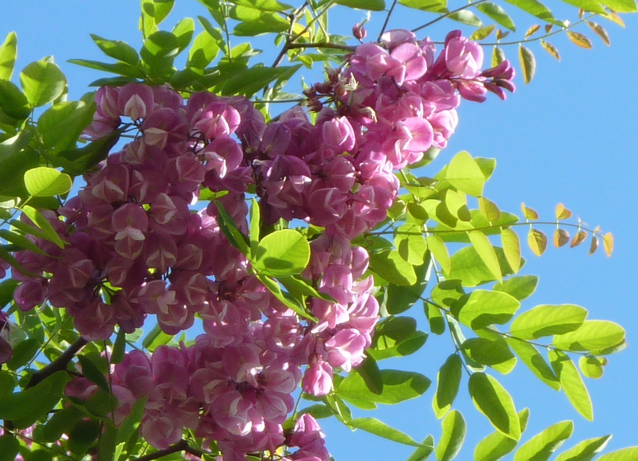 Robinia 'Purple Robe' at Willow and 38th. I went past this tree again, so had to take more photos.